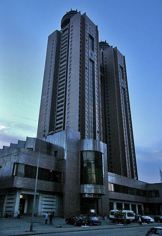 Photo of the Koryo Hotel in the Democratic People's Republic of Korea (North Korea), taken from just south-east of the main entrance, looking north-west. Note that each tower has its own revolving restaurant, and that there's a bridge which connects the two towers about two-thirds of the way up.